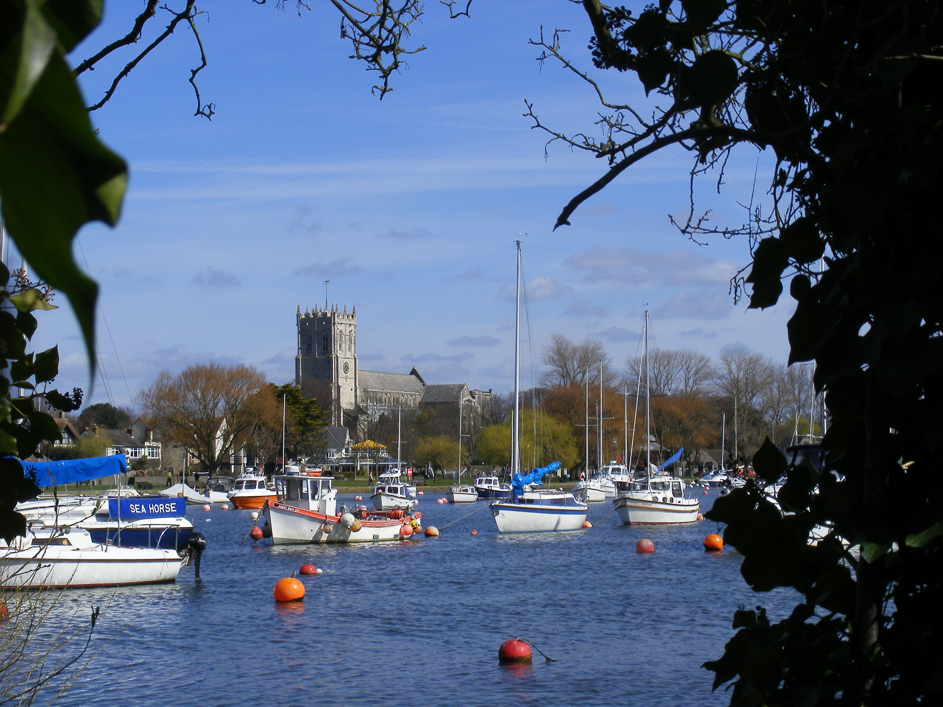 Christchurch Priory (Dorset) from Wick, across the River Stour (from the Tuckton, south, side of the river.